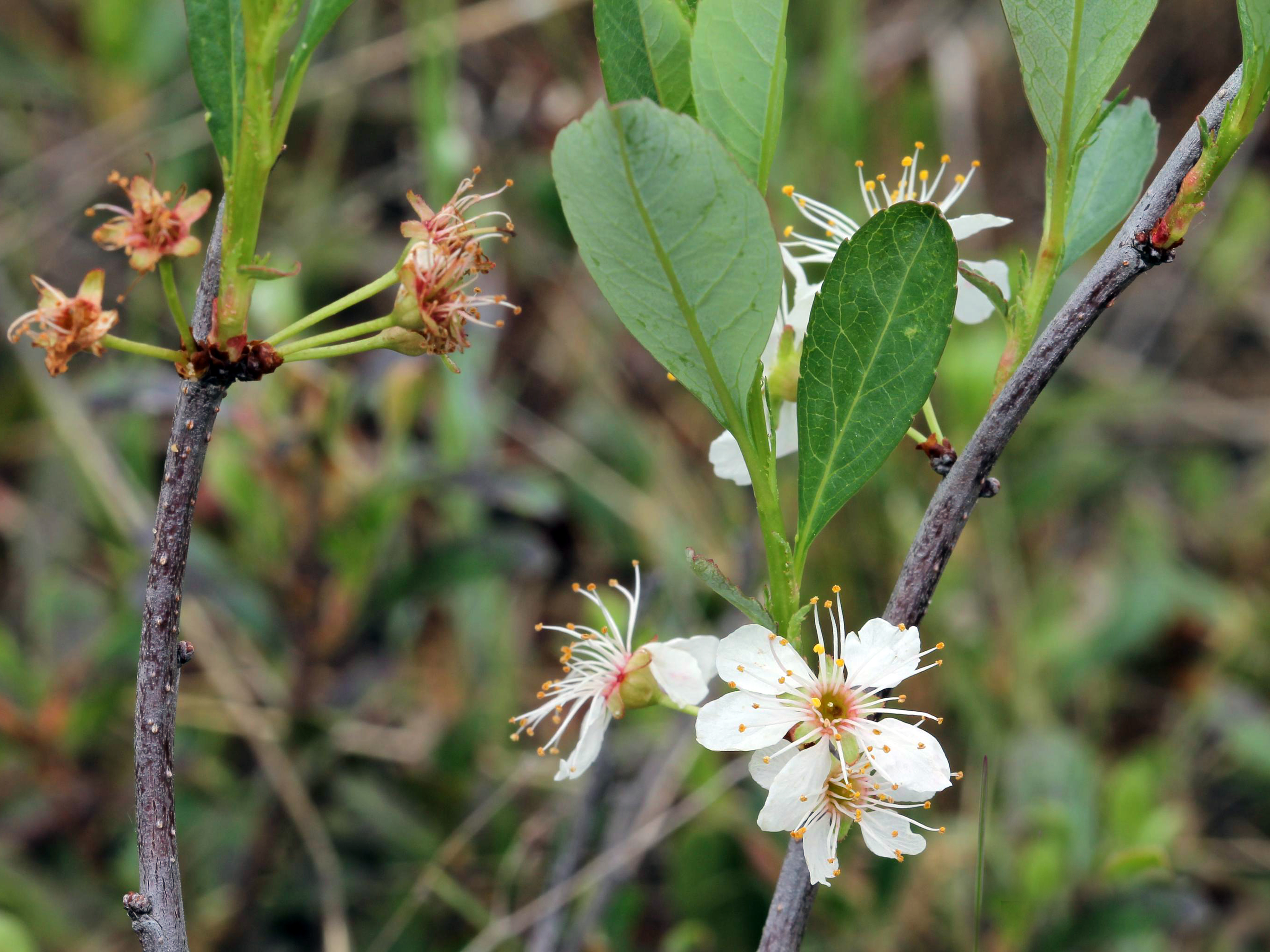 Prunus pumila L. (sand cherry) Mackinac County, Michigan, USA